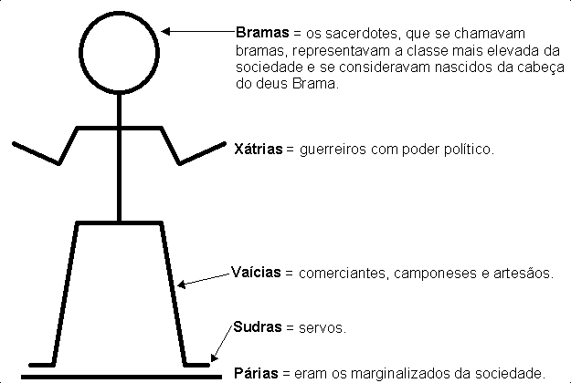 Structure of the Indian society by castes (legend of Purusha). Covers only varna, which is a small part of caste...